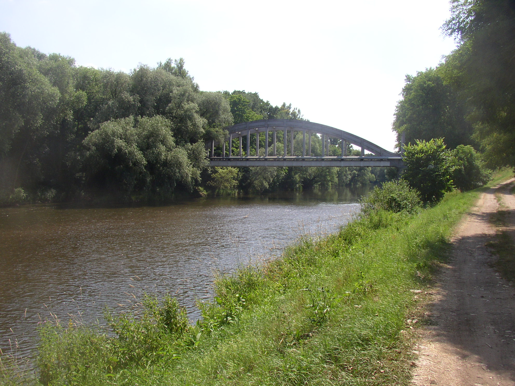 Ferroconcrete road bridge from 1928 over the Ohře River connecting Doksany and Brozany nad Ohří. A view upstream from the left (Brozany) side.